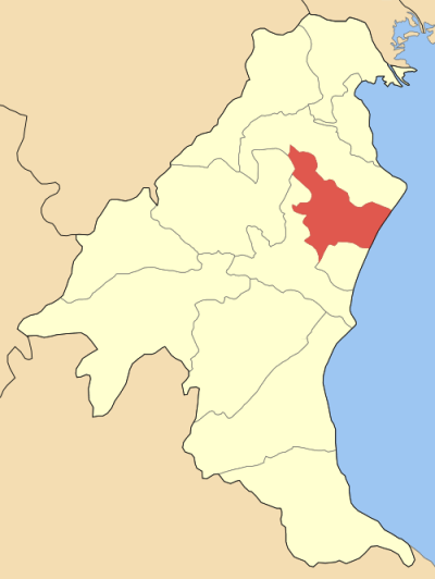 Locator map of Korinou municipality (Δήμος Κορινού) at Pierias perfecture, Greece.